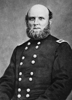 Photo of Egbert Benson Brown (1816-1902), a brigadier general of U.S. volunteers, circa 1864. Carte-de-Visite by E. A. Anthony, New York, N.Y.